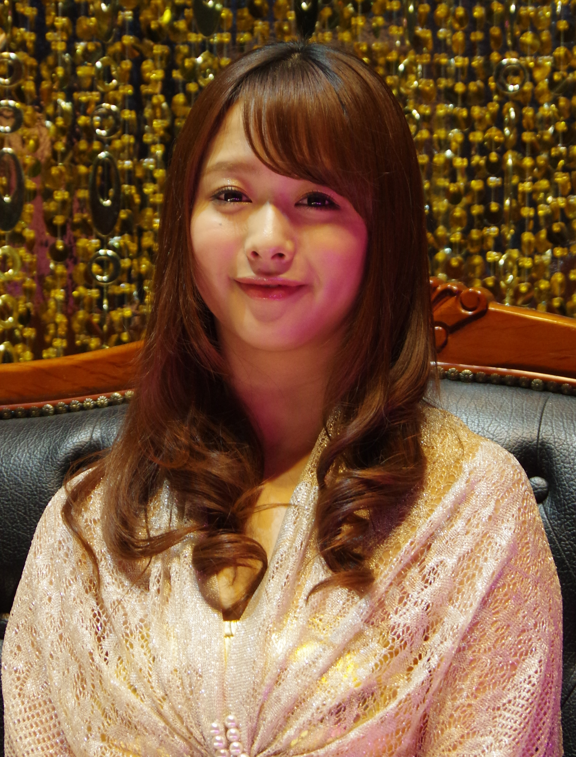 Marina Shiraishi at Tokyo Game Show 2014